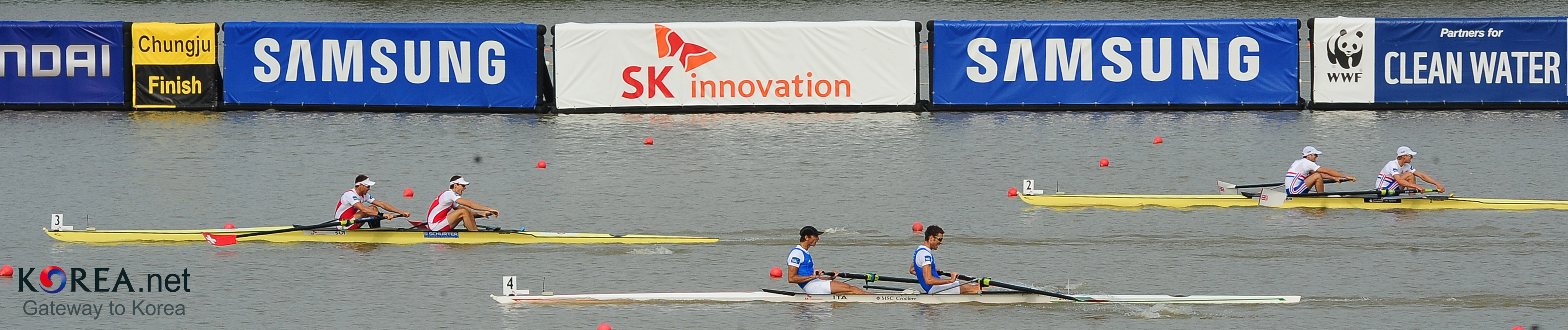 2013 Chungju World Rowing Championships 2013.08.24. – 09.01. -Related Articles- -English- World Rowing Championships kicks off in Chungju -中文- 2013忠州世界赛艇锦标赛开幕 - tiếng Việt- Giải Vô địch Đua thuyền Thế giới khai mạc tại Chungju - Deutsch- Ruder-Weltmeisterschaften in Chungju haben begonnen - 日本語 - 2013忠州世界ボート選手権大会、ローイング（Rowing)競技始まる - Russian - В Чхунжду начинается Чемпионат мира по академической гребле -Francais- Les championnats du monde d'aviron à Chungju sont ouverts ! -Arabic- بطولة العالم للتجديف تنطلق في تشونج جو Ministry of Culture, Sports and Tourism 2013 충주세계조정선수권대회 문화체육관광부